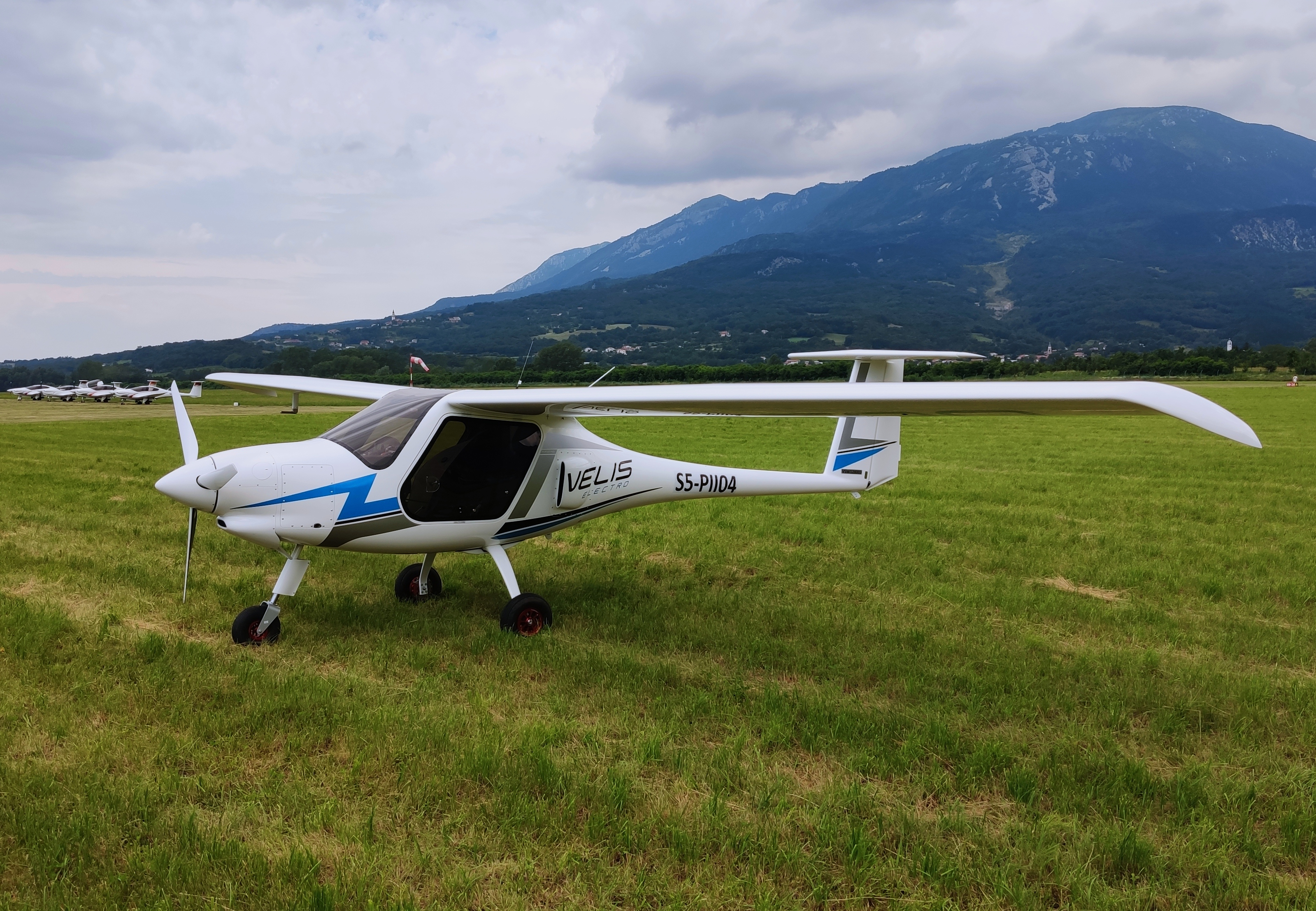 The Pipistrel Velis Electro s/n 003 sitting at Ajdovščina airport after rollout from the assembly line. The rear battery cooling system air intake is visible behind the left door.